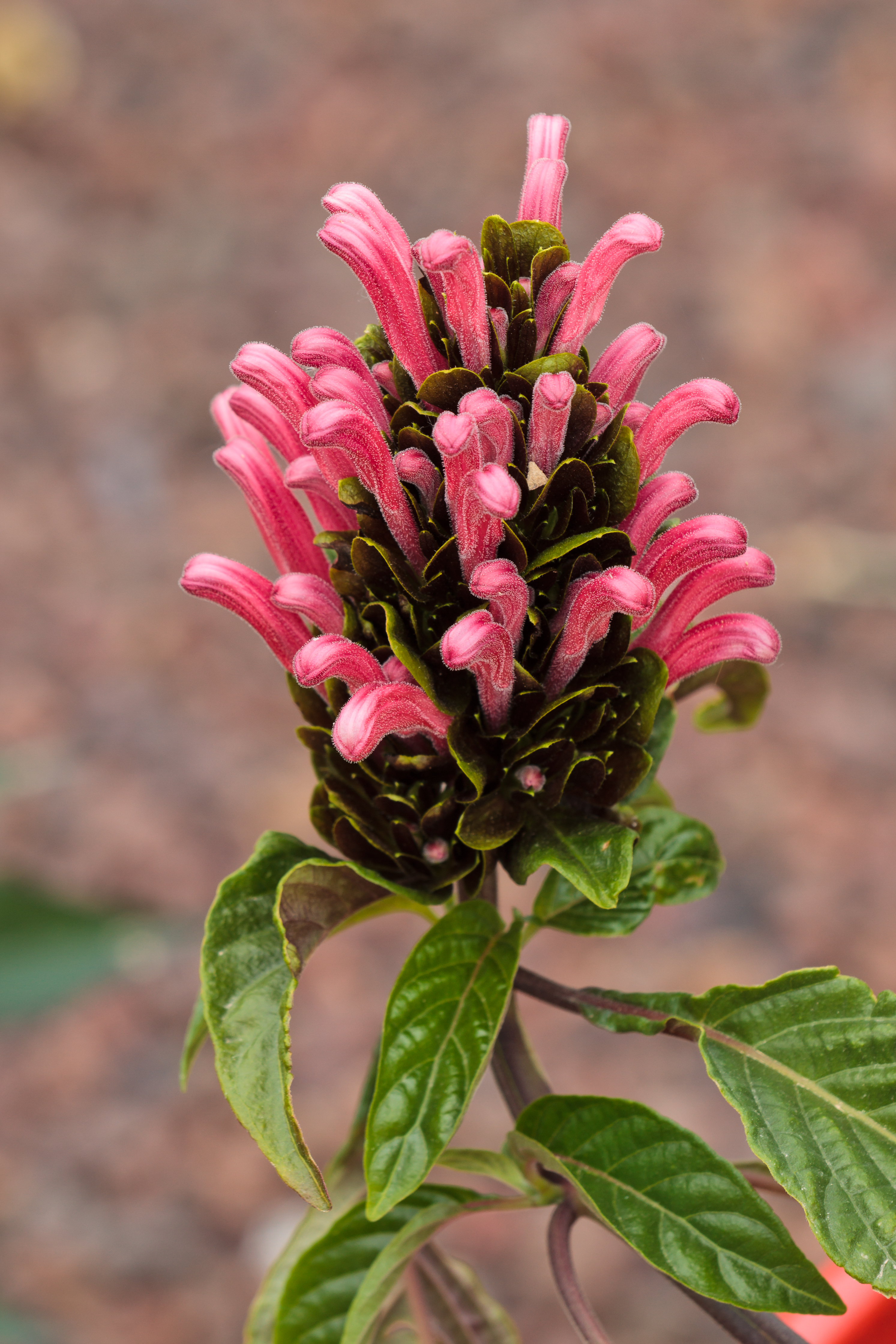 Justicia carnea sp. in gardens of the muséum de Toulouse.